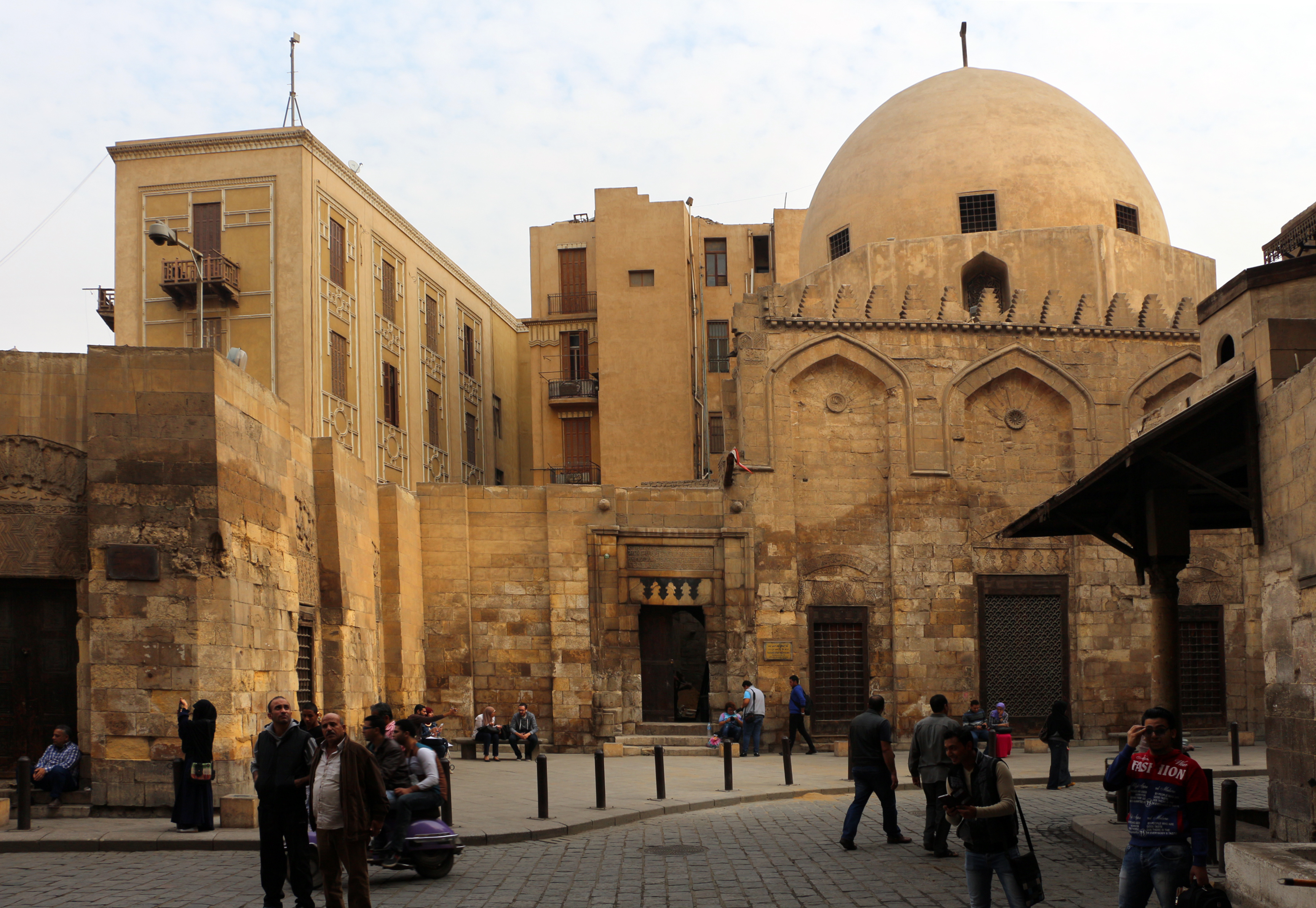 Madrasah Al Zazer